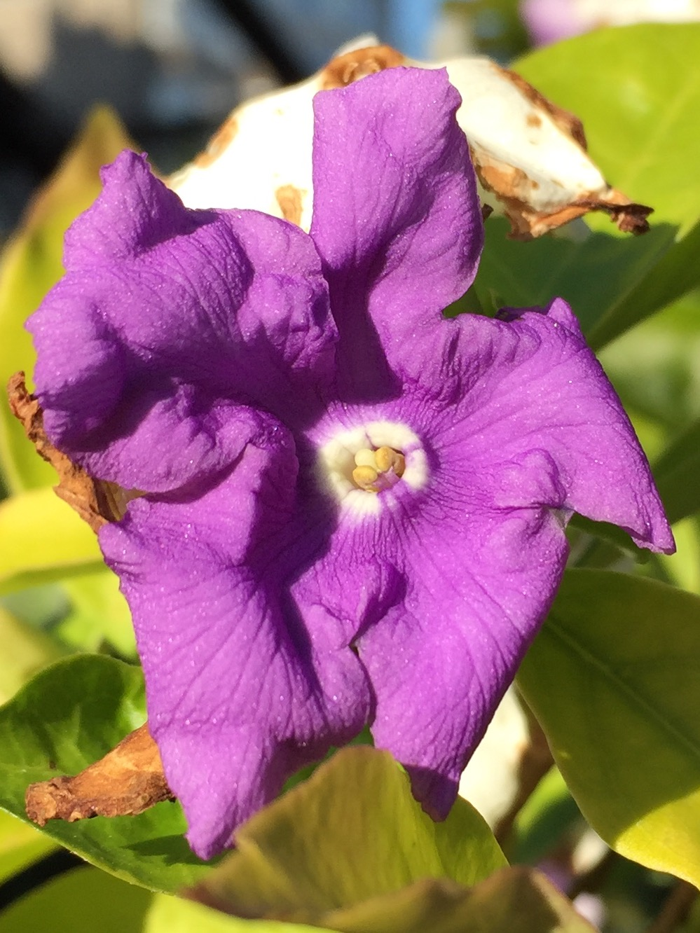 Brunfelsia pauciflora ( Cham. & Schltdl. ) Benth. : single flower of cultivated specimen grown as pot plant in London's Chelsea Physic Garden. Species native to Brazil.